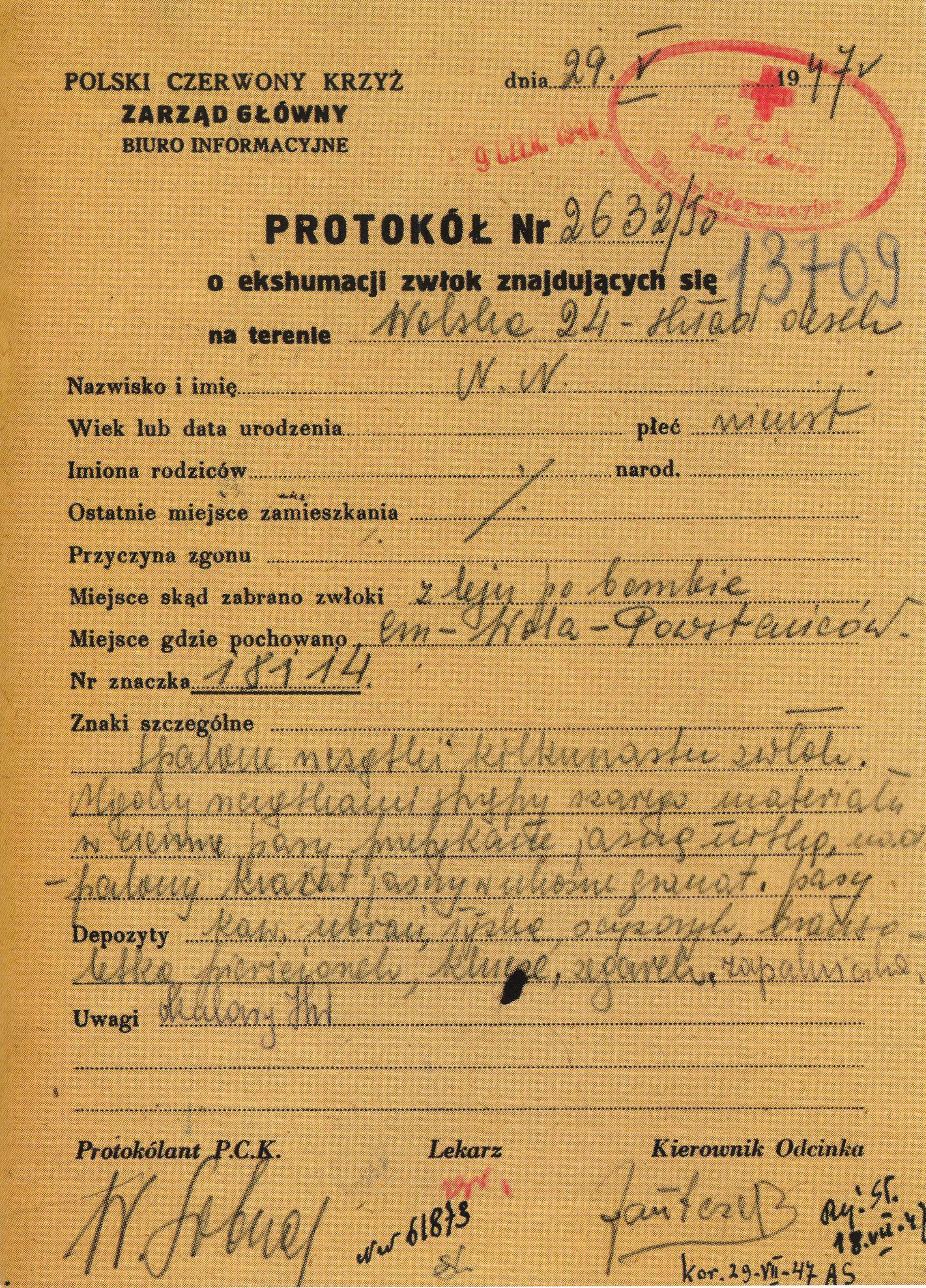 A Polish Red Cross post-war protocole on the exhumation of a victim of the Wola massacre found at 24 Wolska Street